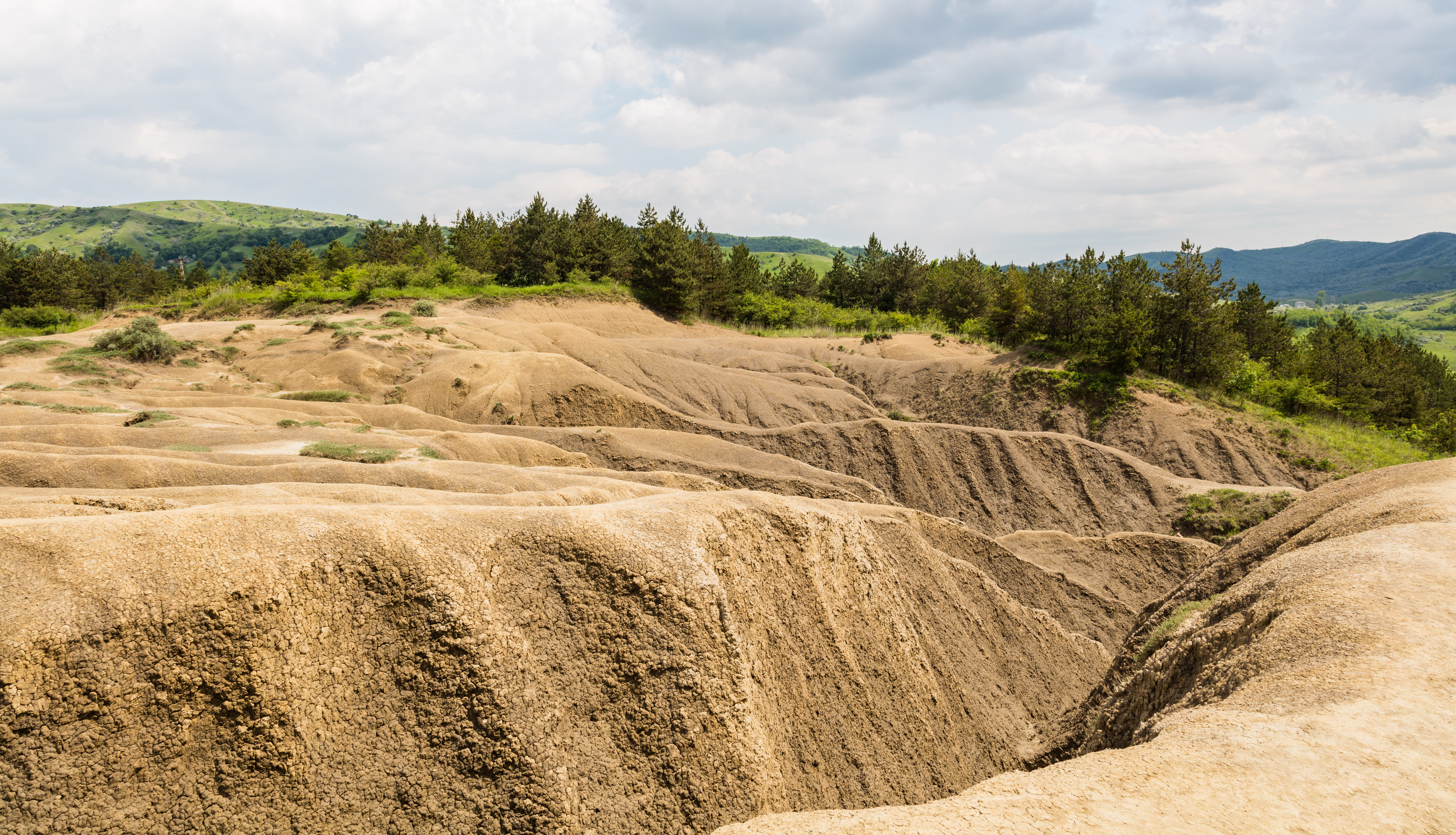 Mud volcanoes, Buzau, Romania